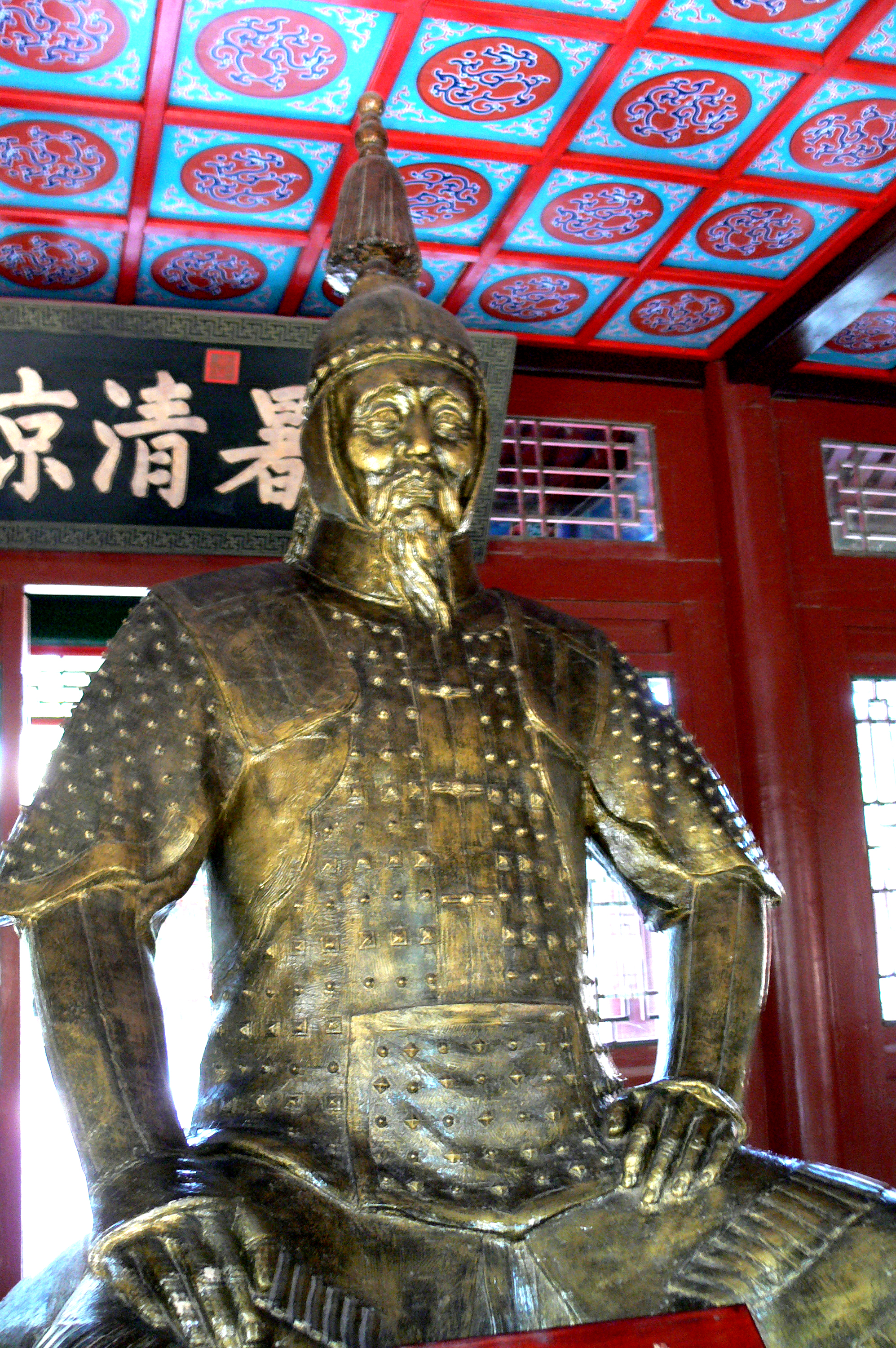 Sitting bronze statue of Emperor Kangxi Mountain Resort